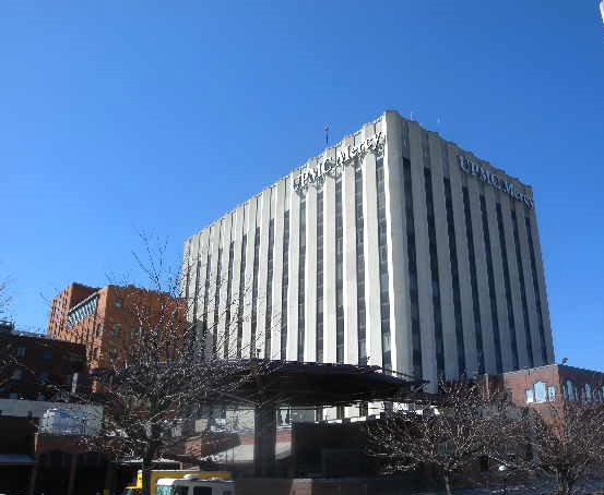 Looking northwest from Bluff Street at great cubical UPMC building on a sunny early afternoon.